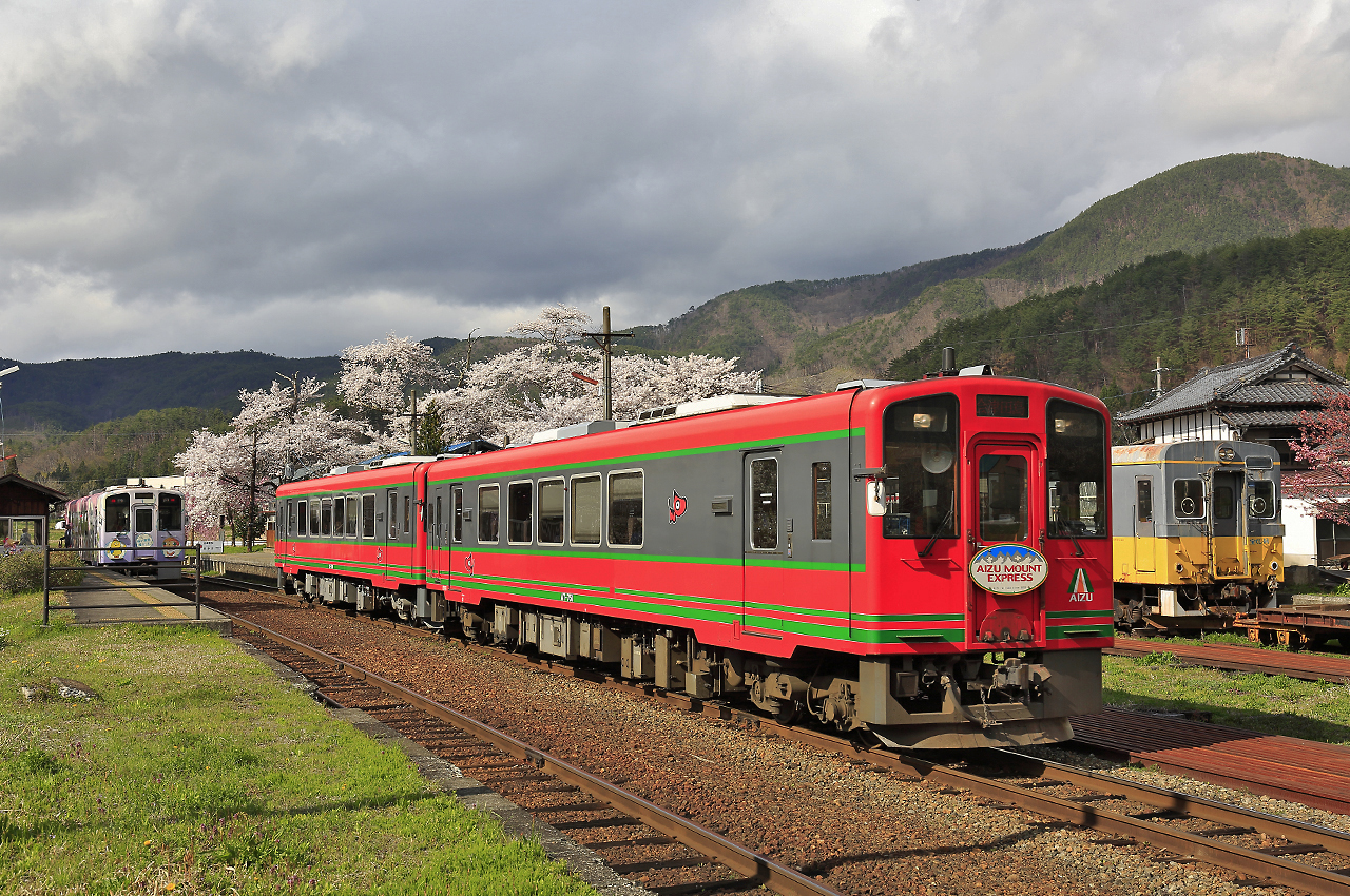 Aizu Railway AT750 and AT700 series DMU cars AT751 and AT701 on an Aizu Mount Express service